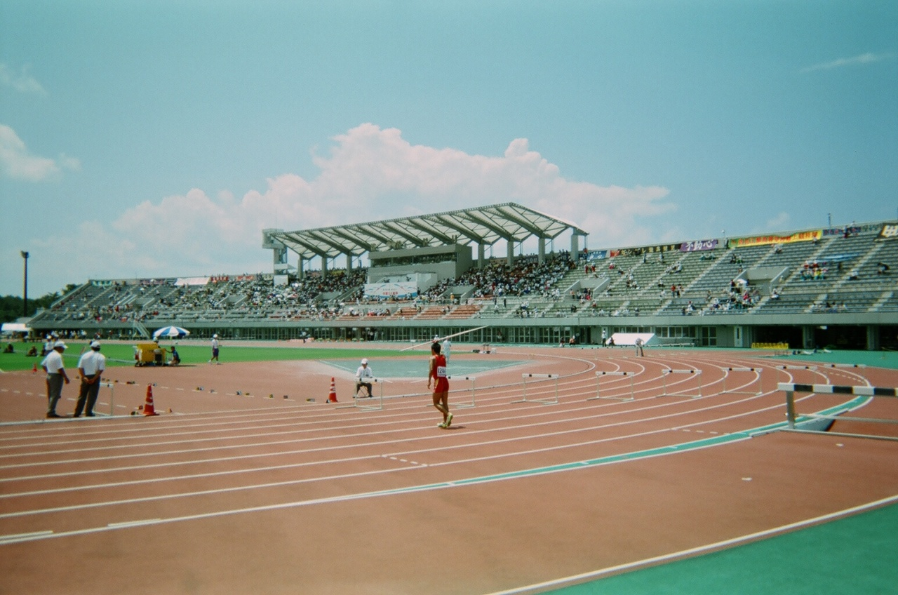 All-Japan Inter-highschool Championships 2004.